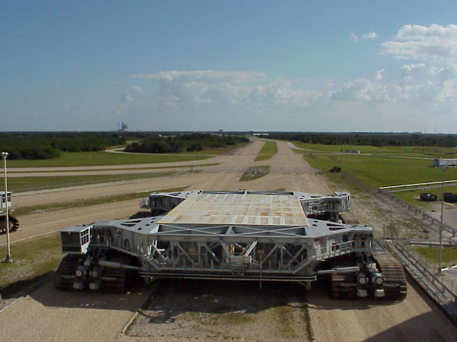 One of NASA's crawler-transporter vehicles, which are used to move the space shuttles to the launch pad. Another crawler can just be seen on the left side of the image.